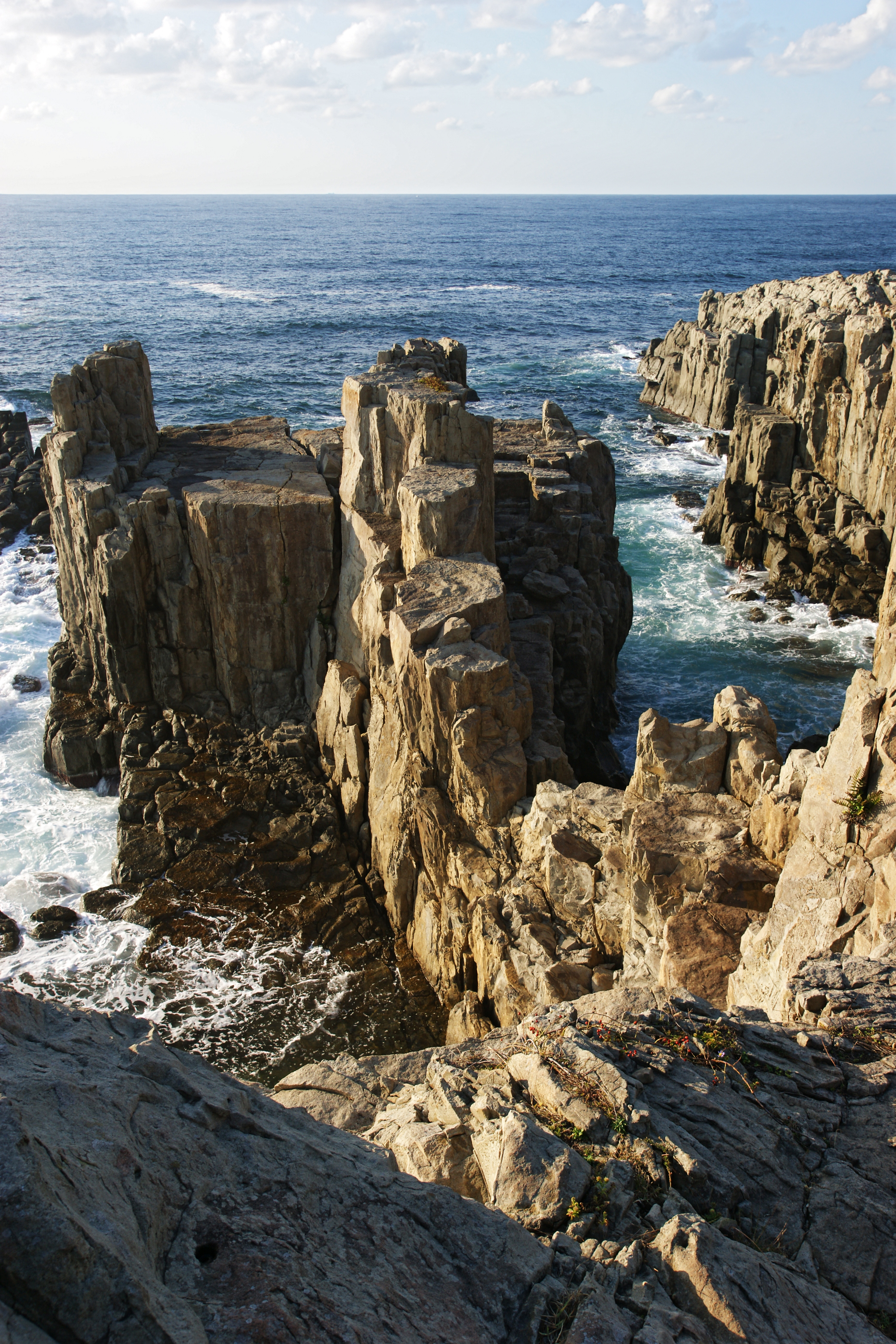 Tojinbo in Sakai, Fukui prefecture, Japan